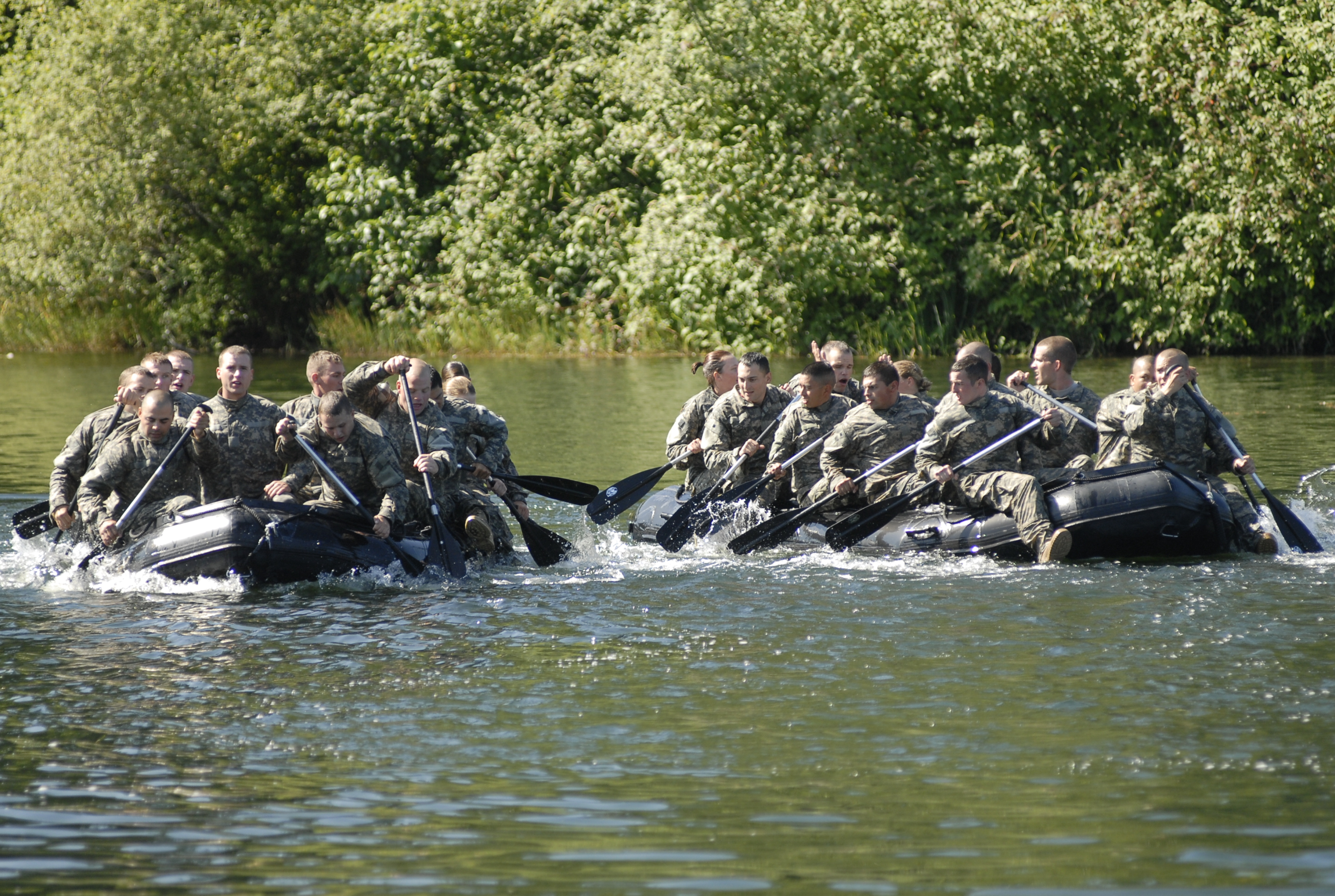 Teams of ROTC cadets compete at the water confidence course during Leader Development and Assessment Course training on Fort Lewis, Wash., July 19. See more at Army looks to refine initial officer training